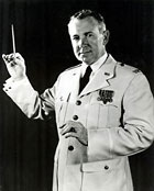 Colonel George S. Howard, Commander and Conductor of the USAF Band, 1944-1963. Source: USAF Photo Available at History of The United States Air Force Band